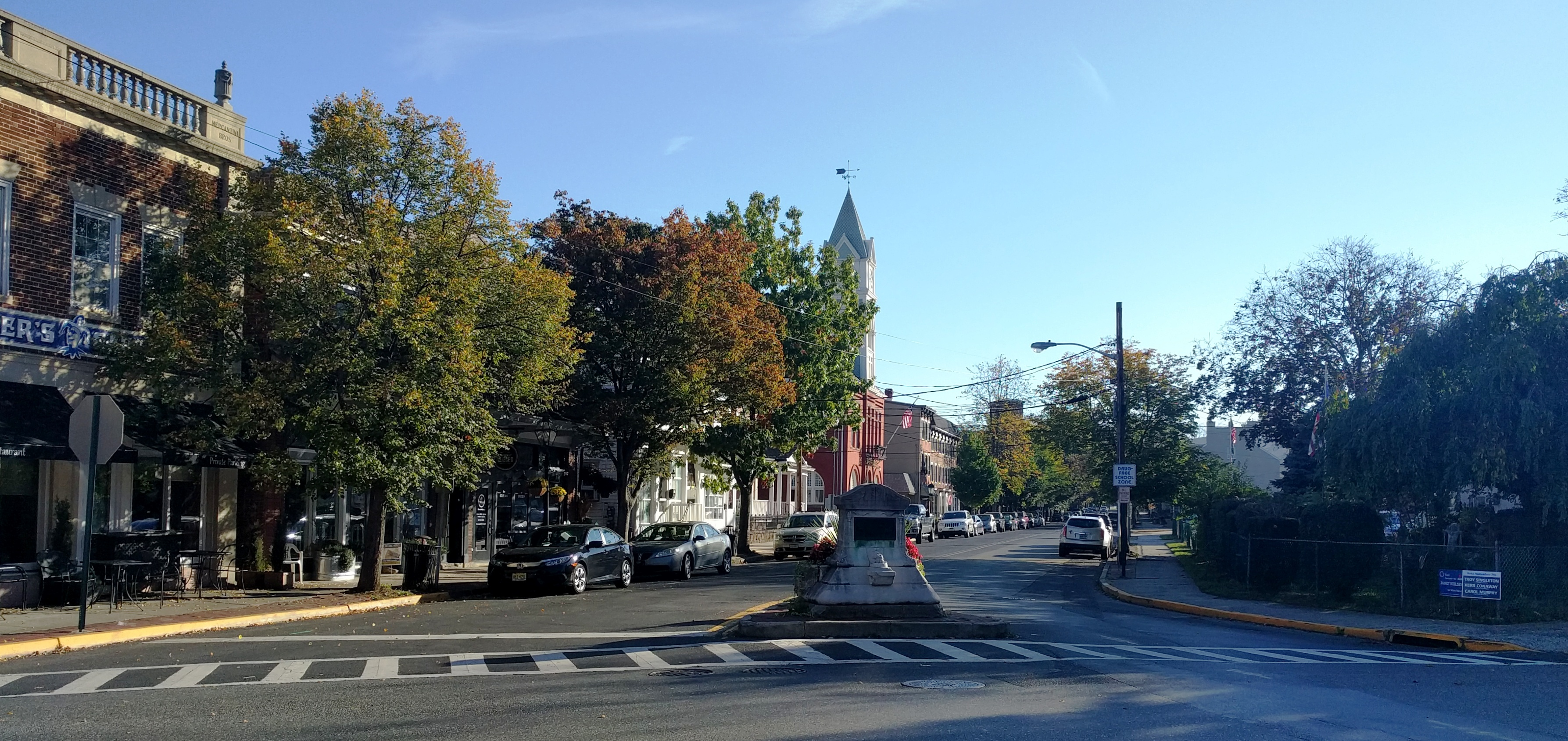 Photo showing the western terminus of County Route 528 (Crosswicks Street) at Farnsworth Avenue (CR 545) in Bordentown, New Jersey.